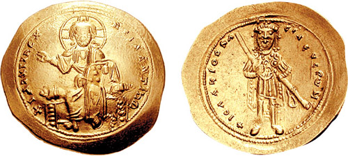 Isaac I Comnenus, 1057-1059, gold histamenon nomisma.Impero Bizantino - Isaac I Commenus (1057-1059) + IhS XIS REX REGNANTIhM Christ nimbate enthroned facing with raised right hand & book of gospels + ICAAKIOC BACILEVC RWM, Isaac standing facing, crowned and wearing military dress, holding sword. DOC III 2; SB 1843.